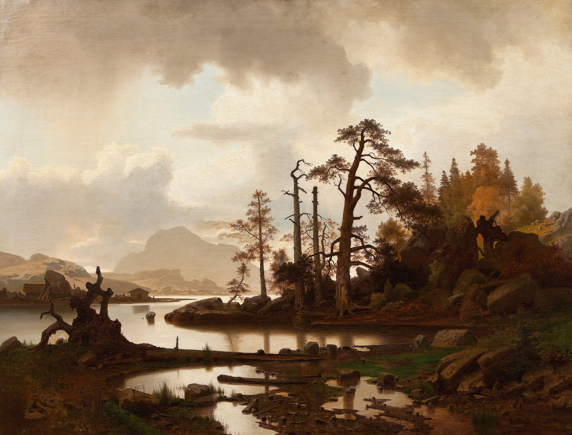 Landscape painting